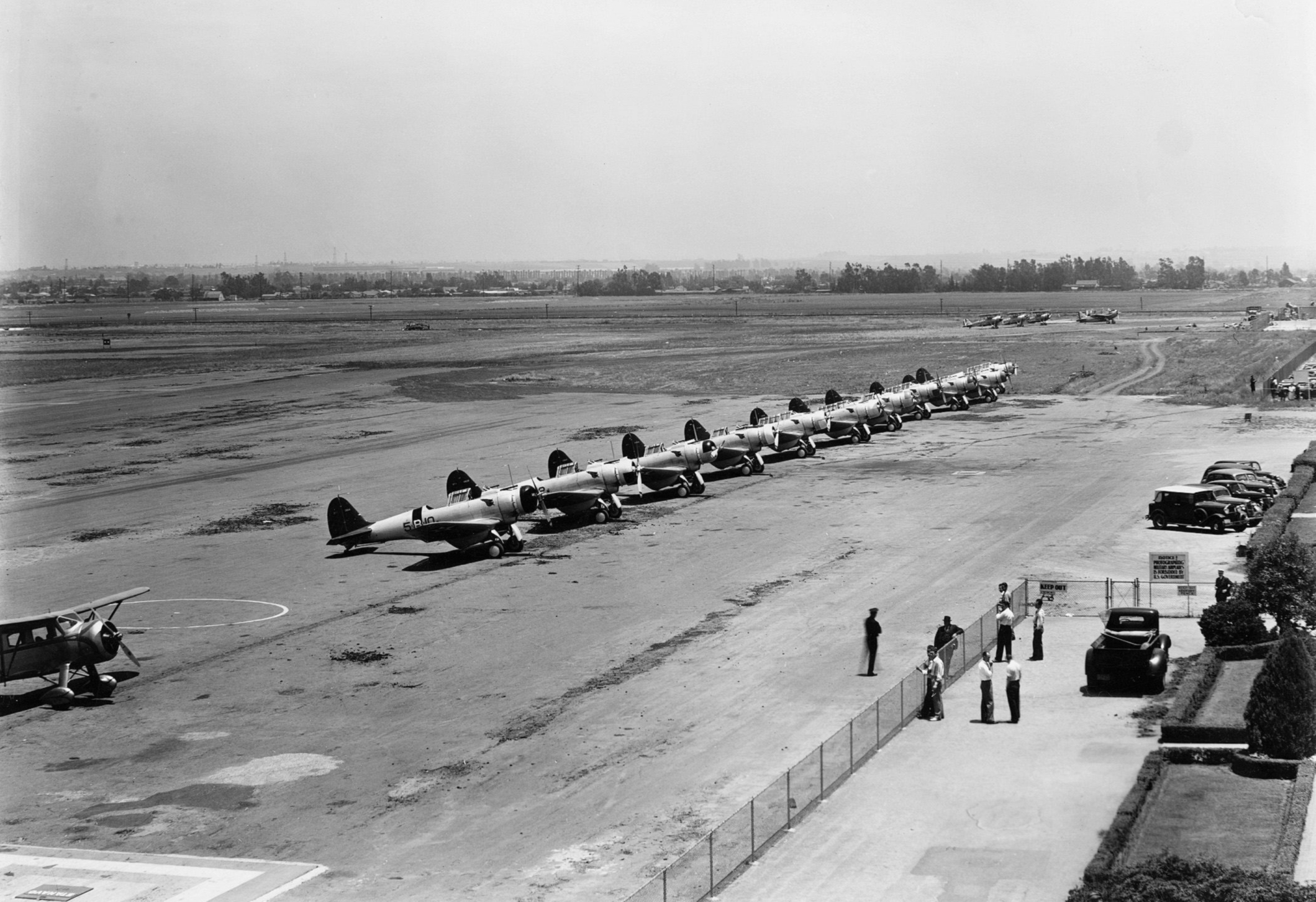 Eleven U.S. Navy Northrop BT-1s of Bombing Squadron Five (VB-5) pictured sitting lined up. In the backgound are three Vought SBUs and a USAAC North American O-47. Note the sign in the foreground: "Notice! Photographing Military Airplanes is Forbidden by U.S. Government!"